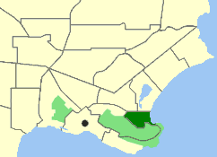 Map of the suburb of Middleton Beach in Albany, Western Australia.